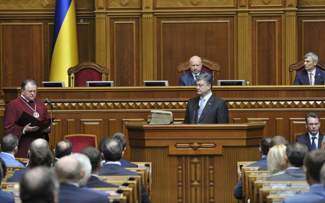 Petro Poroshenko presidential inauguration, 7th June 2014